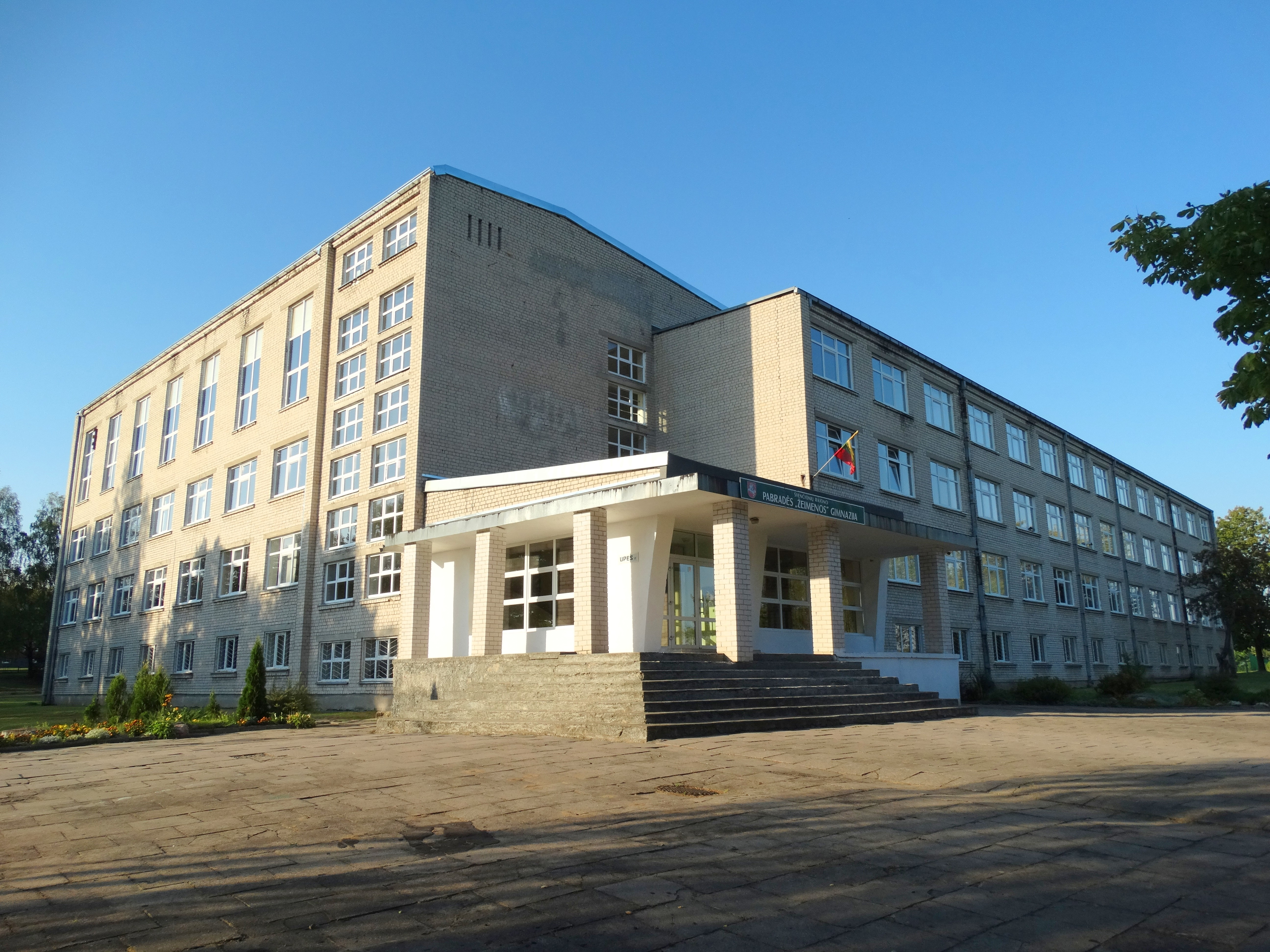 Žeimena Gymnasium, Pabradė, Švenčionys District, Lithuania